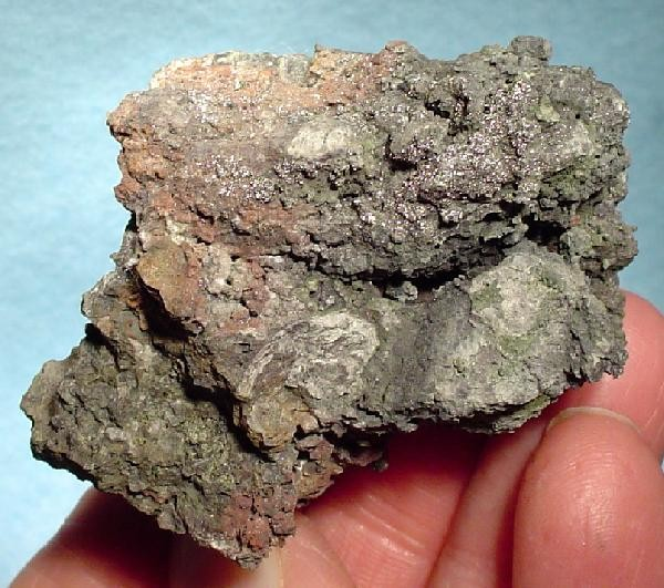 Rheniite Locality: Kudriavy (Kudryavyi) volcano, Iturup Island, Kuril Islands, Sakhalinskaya Oblast', Far-Eastern Region, Russia (Locality at ) Size: 5.5 x 4.2 x 3.4 cm. Rheniite is the only known mineral with Rhenium as its primary metallic constituent and as such is a fascinating species. It occurs at a volcanic vent in this remote area of Russia, and scientists have to climb down into hot crevasses to find the stuff. This is a REALLY RICH specimen with LOTS of silvery bright microcrystalline rheniite.